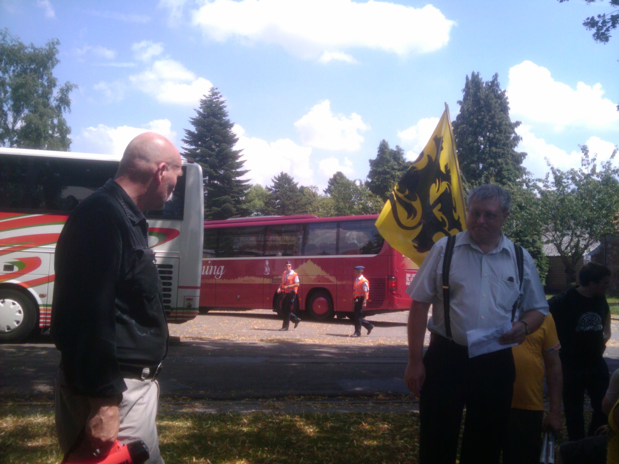 Luc Vermeulen (left) and Johan Vanslambrouck at a Voorpost demonstration.